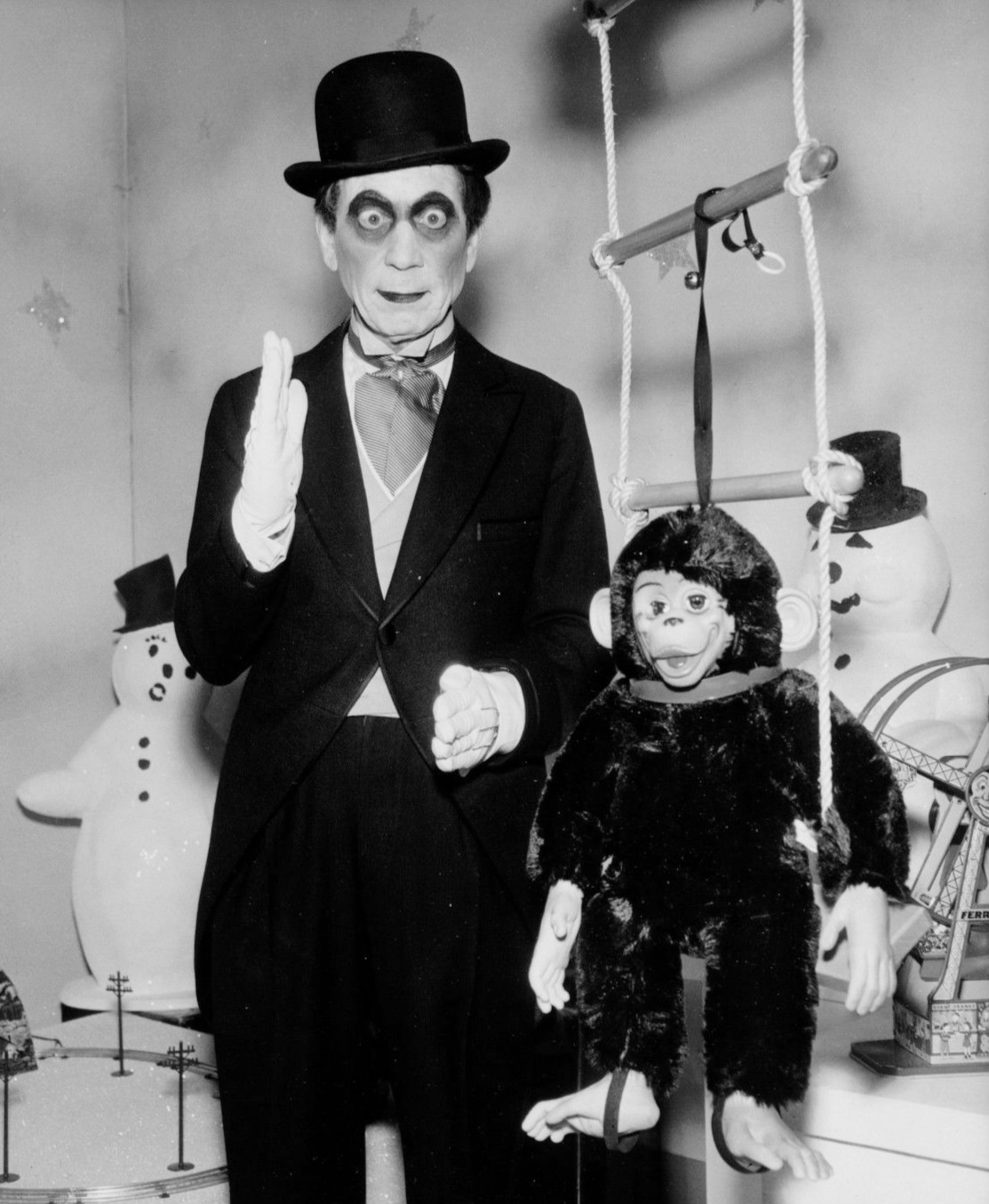 Photo of Harpo Marx from a performance on the television program The DuPont Show with June Allyson. Marx plays the role of a deaf-mute man who performs as a "mechanical man" in a department store window. While on the job, he witnesses a murder. Realizing that the killers know he has seen them, he knows they will come for him. He flees, but is not able to express his fear because of what he saw.